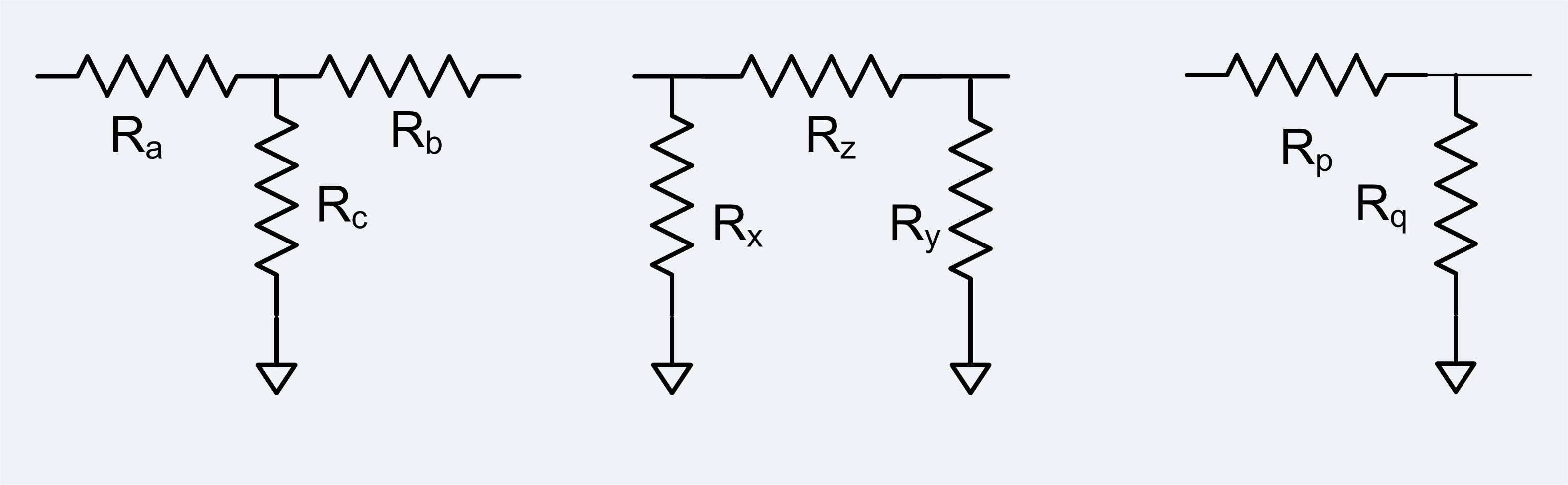 Schematic with resister designations for Tee-Pad, Pi-Pad and L-Pads